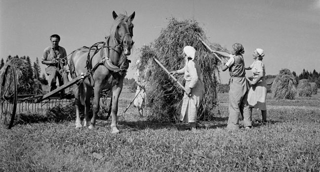 Haymaking.